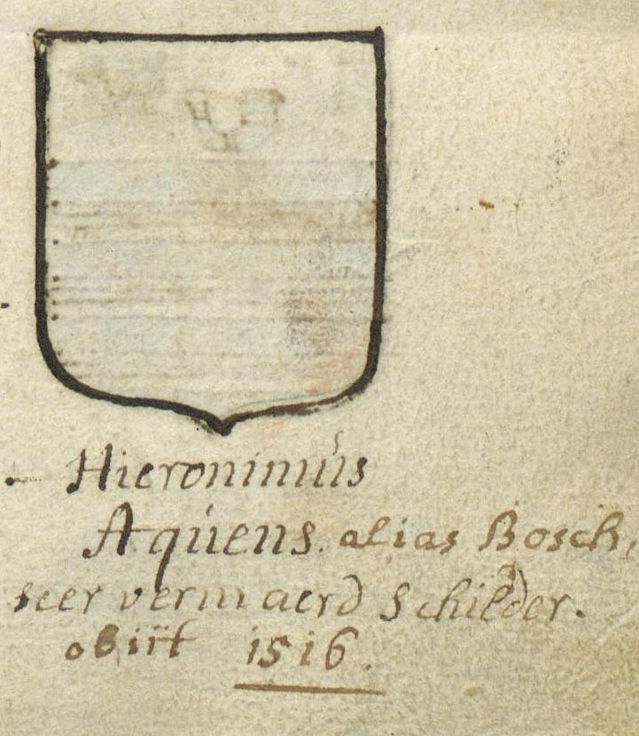 Entry of Hieronymus Bosch in Wapenboek I (Armorial I) of the 's-Hertogenbosch Illustrious Brotherhood of Our Blessed Lady.